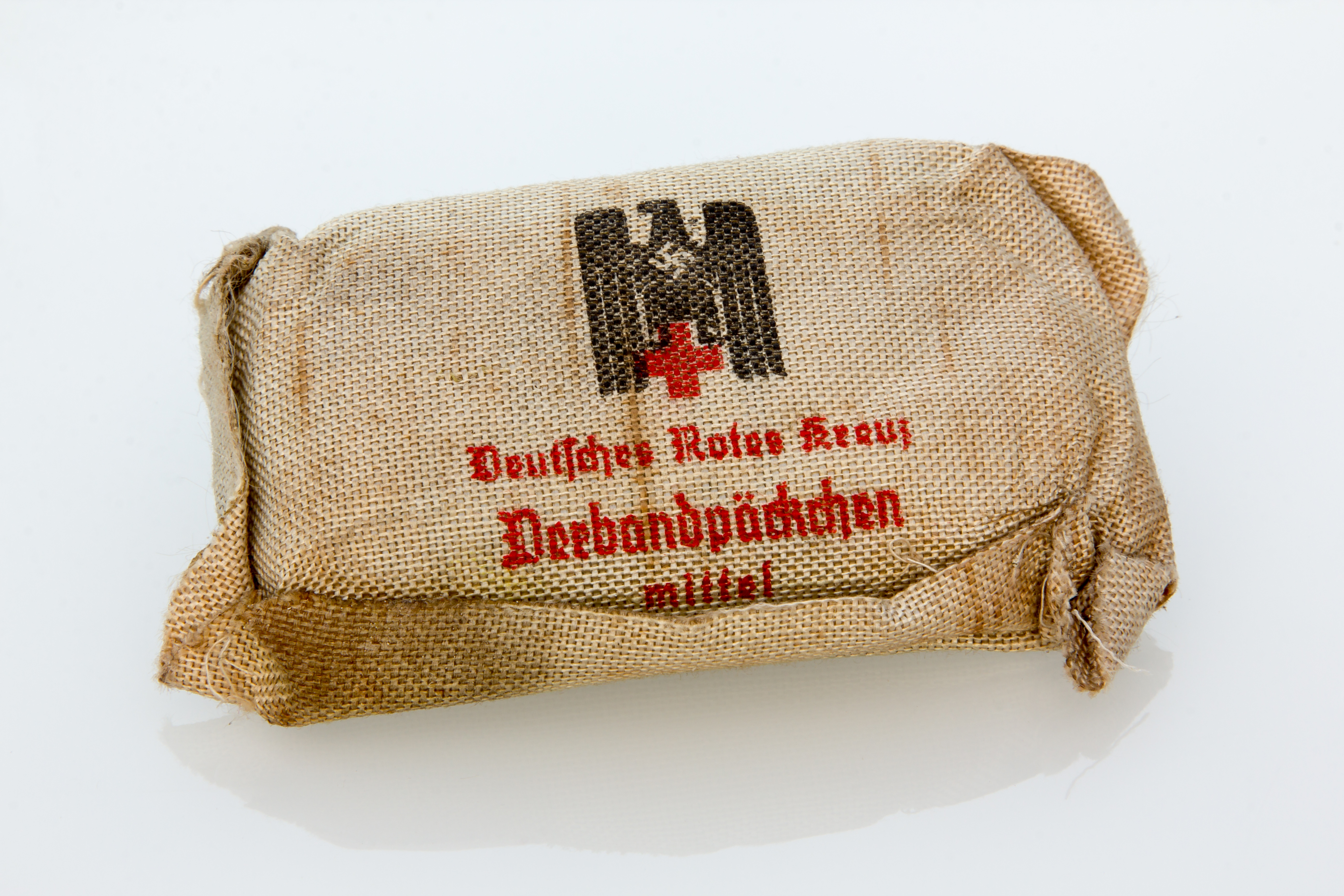 Bandage pack from a German Red Cross helper pocket of the 1930s